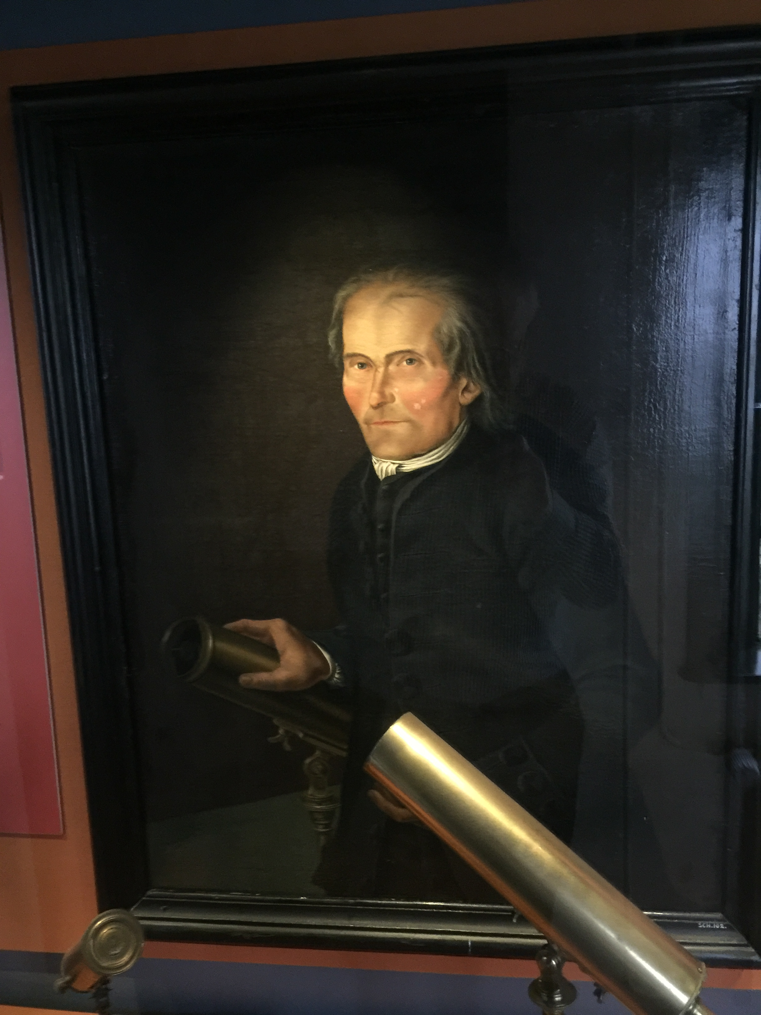 Dutch instrument maker Jan Pieters van der Bildt. Schilderij door J.J. Boot in Eise Eisinga Planetarium